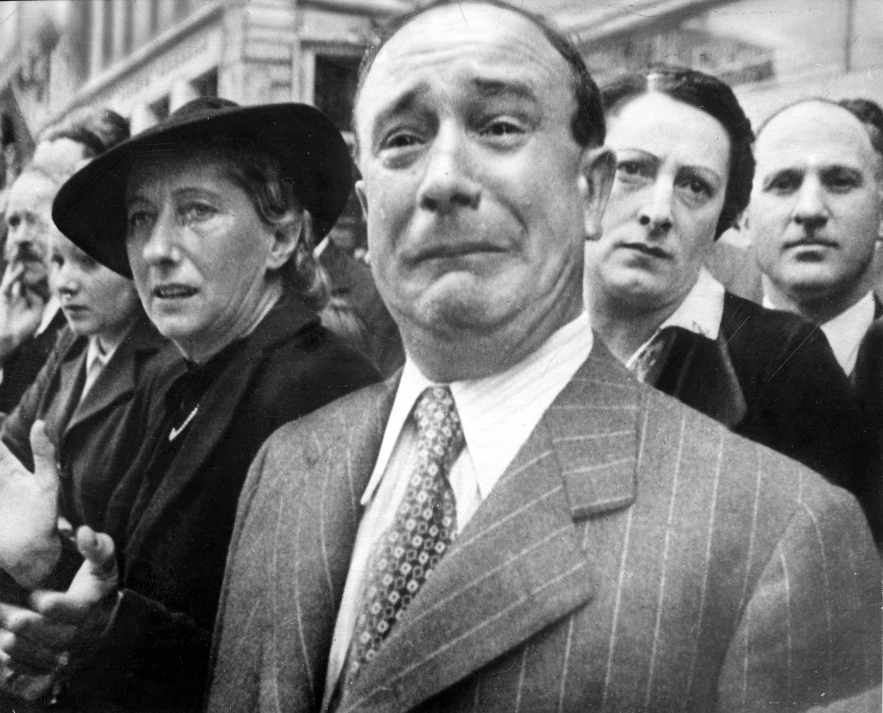 "A Frenchman sheds tears of patriotic grief as flags of his country's lost regiments are exiled to Africa", according to the caption in the 3 March 1941 issue of Life magazine. Incorrectly captioned by NARA as "A Frenchman weeps as German soldiers march into the French capital, Paris, on June 14, 1940, after the Allied armies had been driven back across France." 208-PP-10A-3.